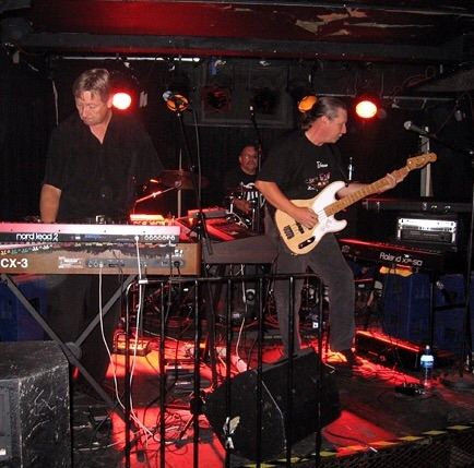 Glass performing live onstage in Oslo Norway